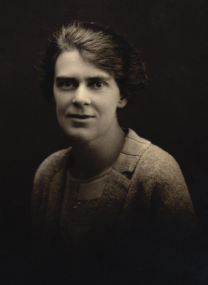 Mary Isabel Lambie passport application photo (1925)